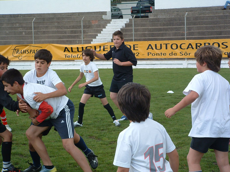 U14 - CRUP